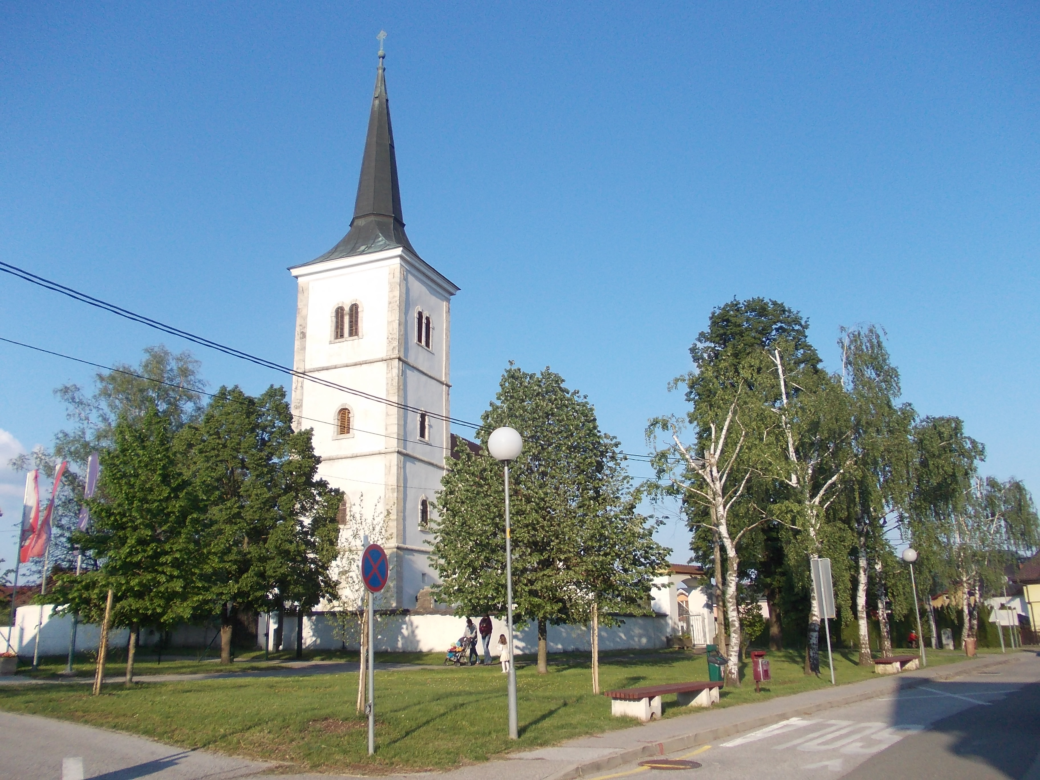 Assumption of Mary Parish Church in Brezje (Maribor)